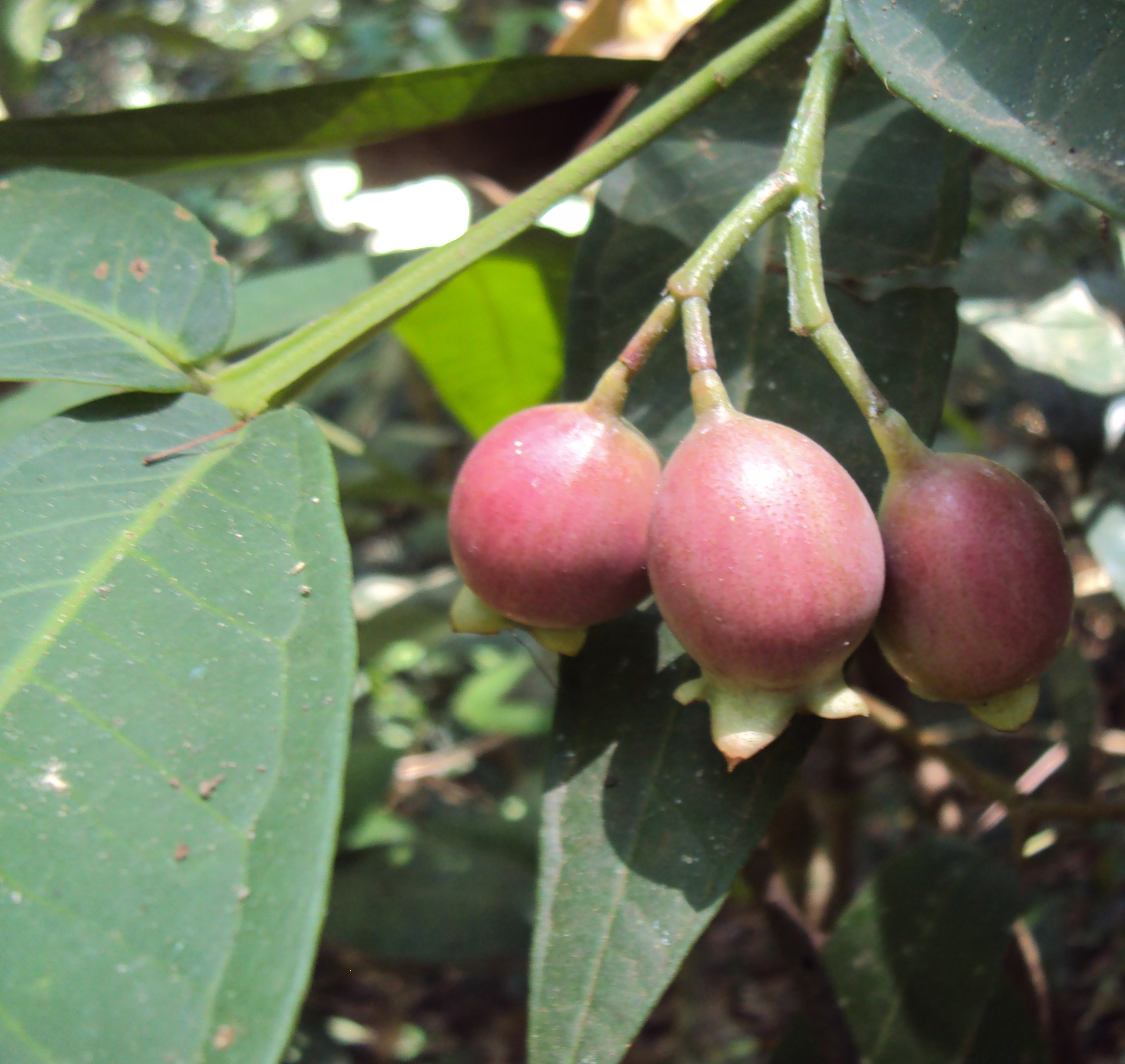 Syzygium Munronii